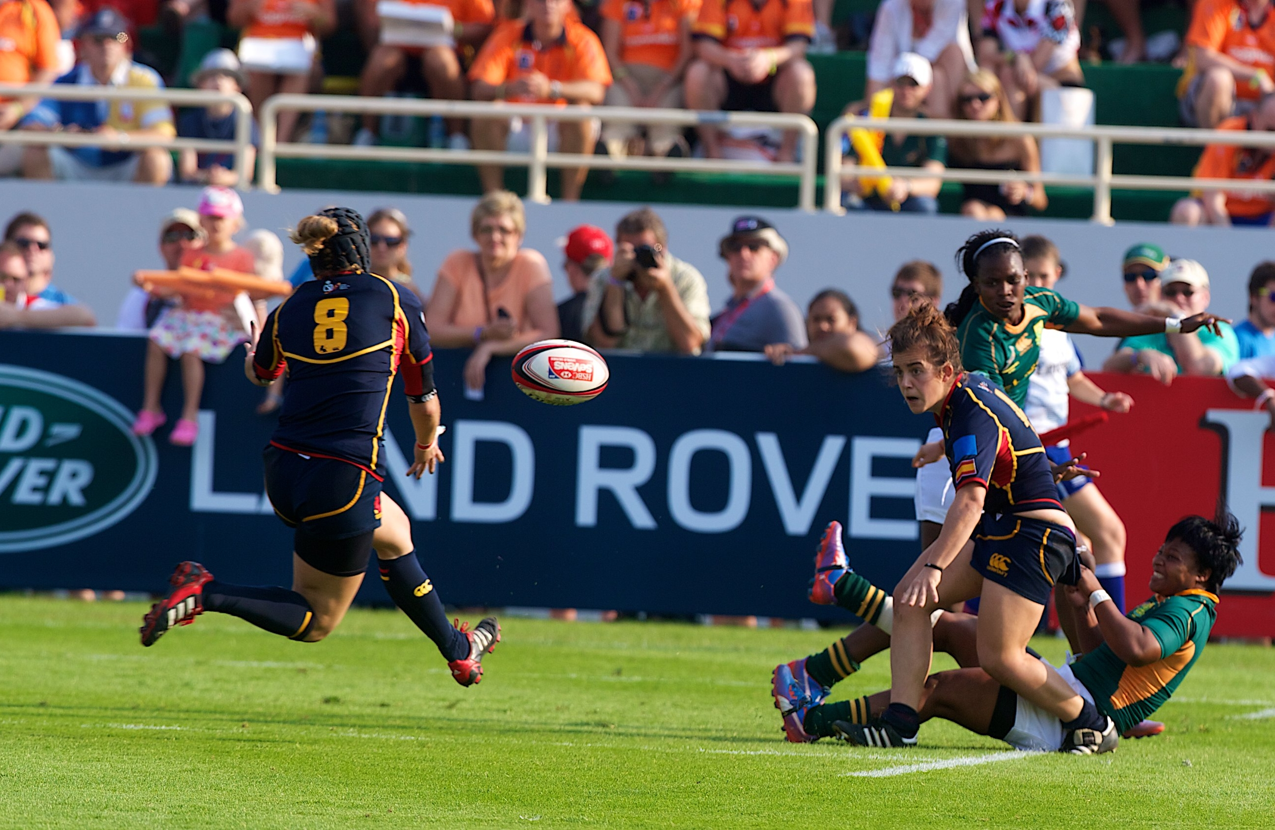 Spain playing South Africa at the 29012 Dubai Women's Sevens tournament